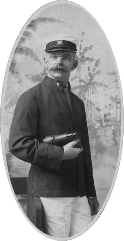 Clarence William Macfarlane as Commodore of Honolulu Yacht Club in command of yacht "La Palama".